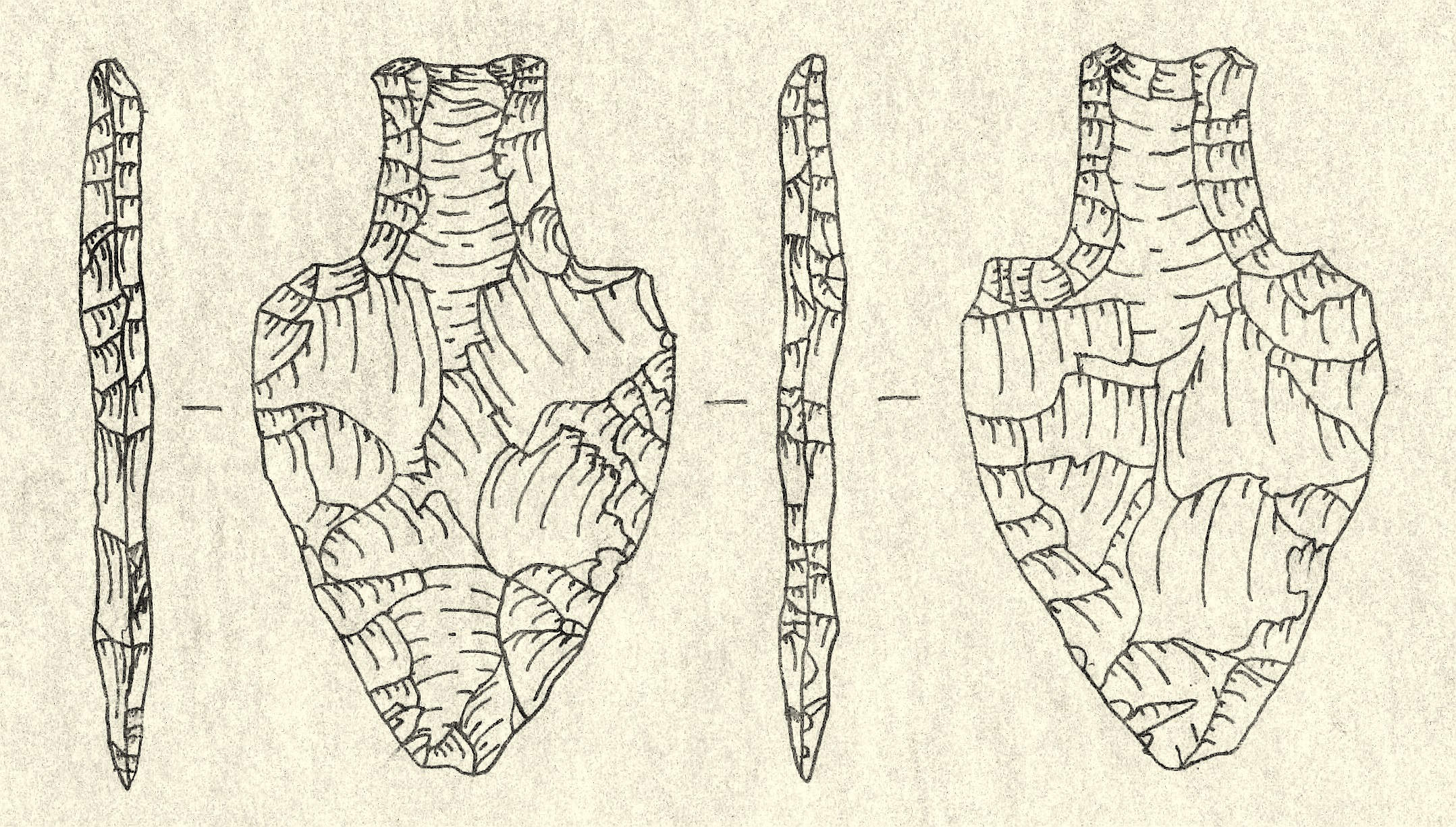 This is a "Fishtail" point which was found on the surface near the Mayan Site of Lamanai on the banks of the New River Lagoon in Belize. This is one of a very few of these stemmed fluted point ever found in Belize. This illustration is of a cast of this point.